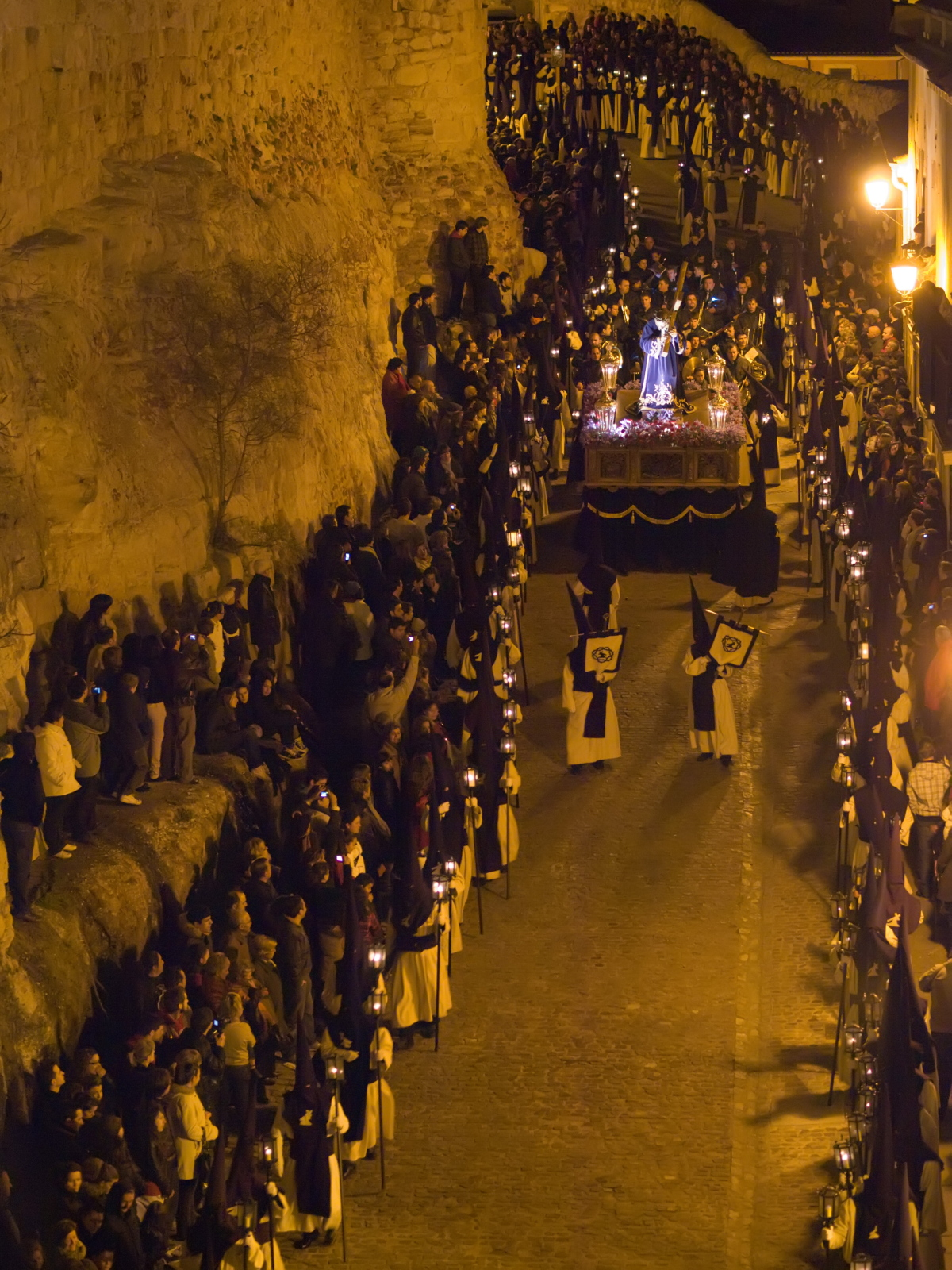 Procession of the religious brotherhood Cofradía de Jesús del Via Crucis, Zamora (Spain), Holy Week 2010